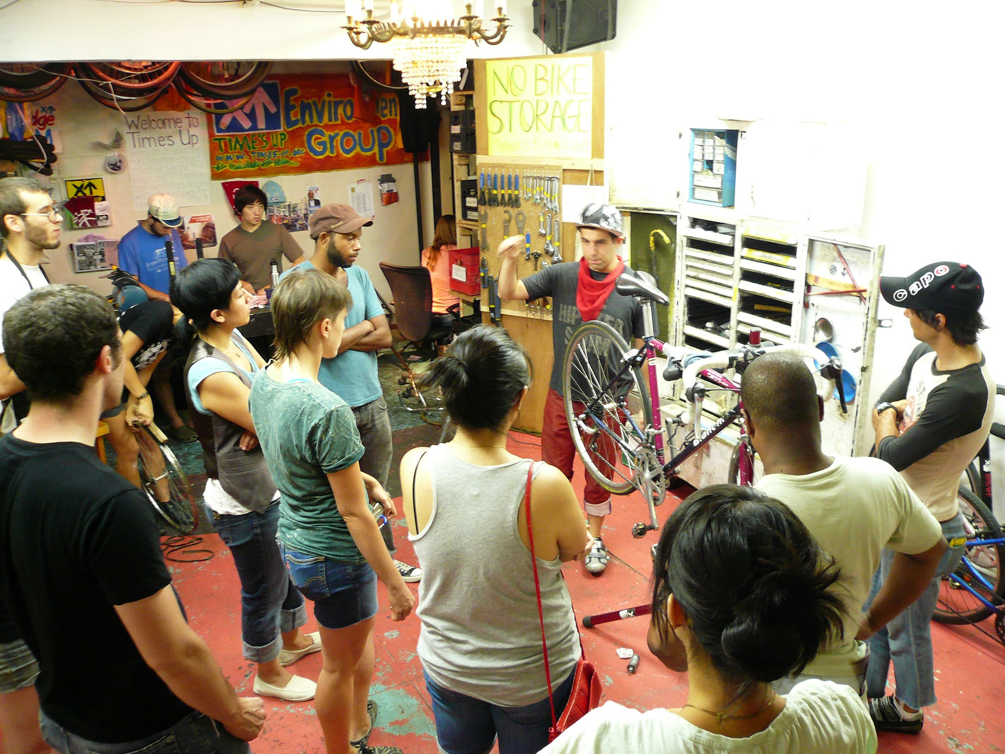 Time's Up! Bike Repair Class in Williamsburg